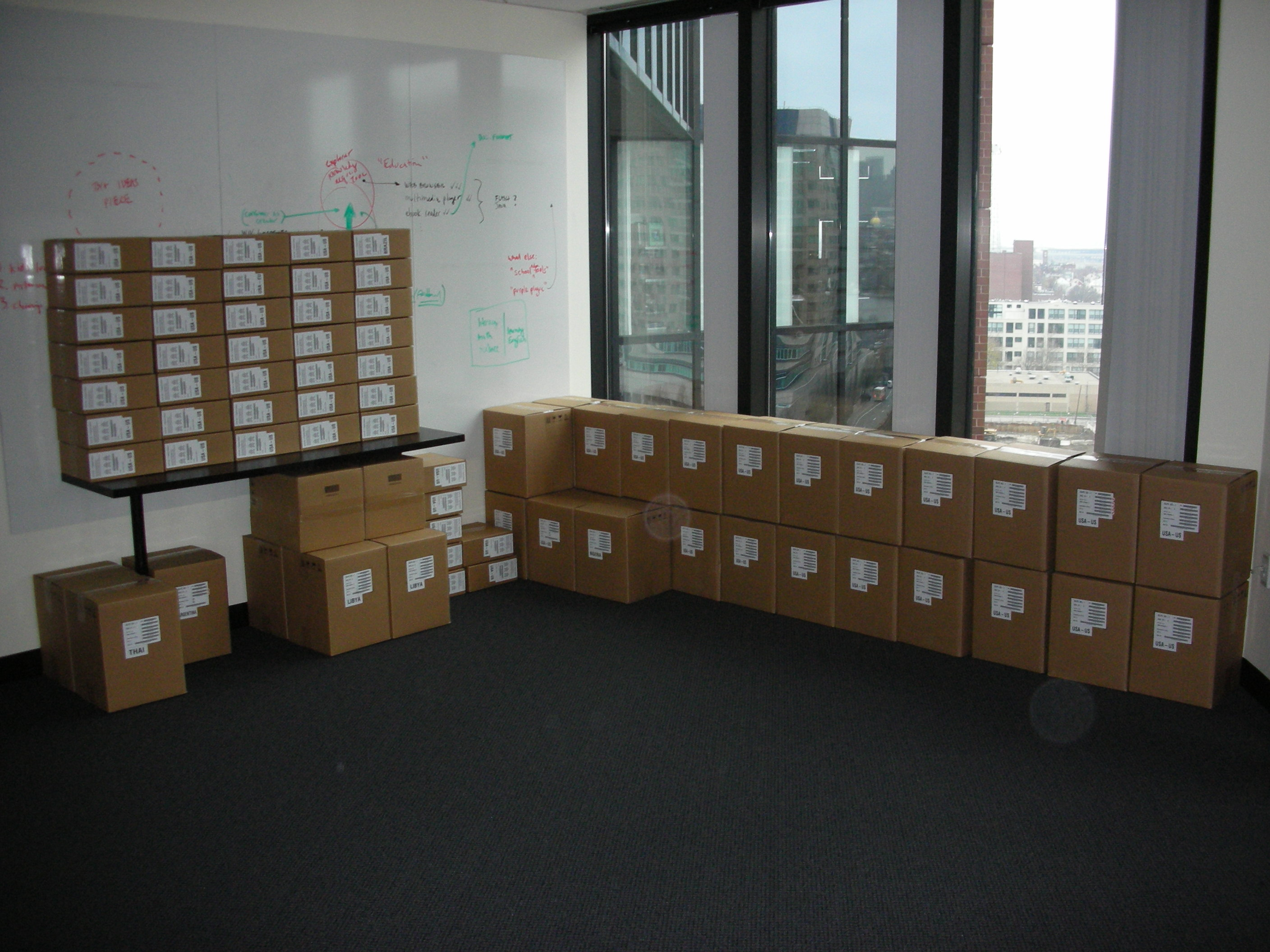 The first of shipment OLPC machines in Cambridge, MA. "A thousand pounds of laptops".